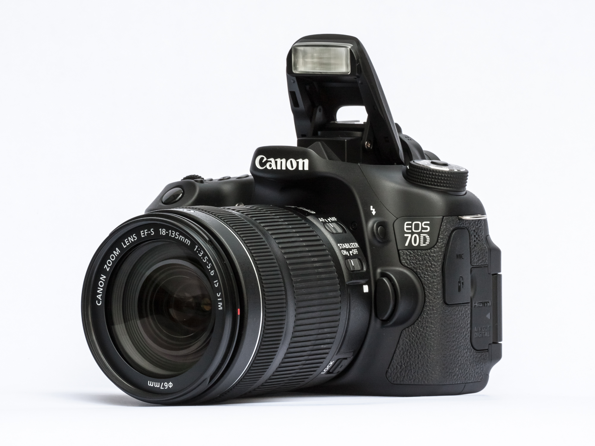 Canon EOS 70D body with EF-S 18-135 mm f/3.5-5.6 IS STM